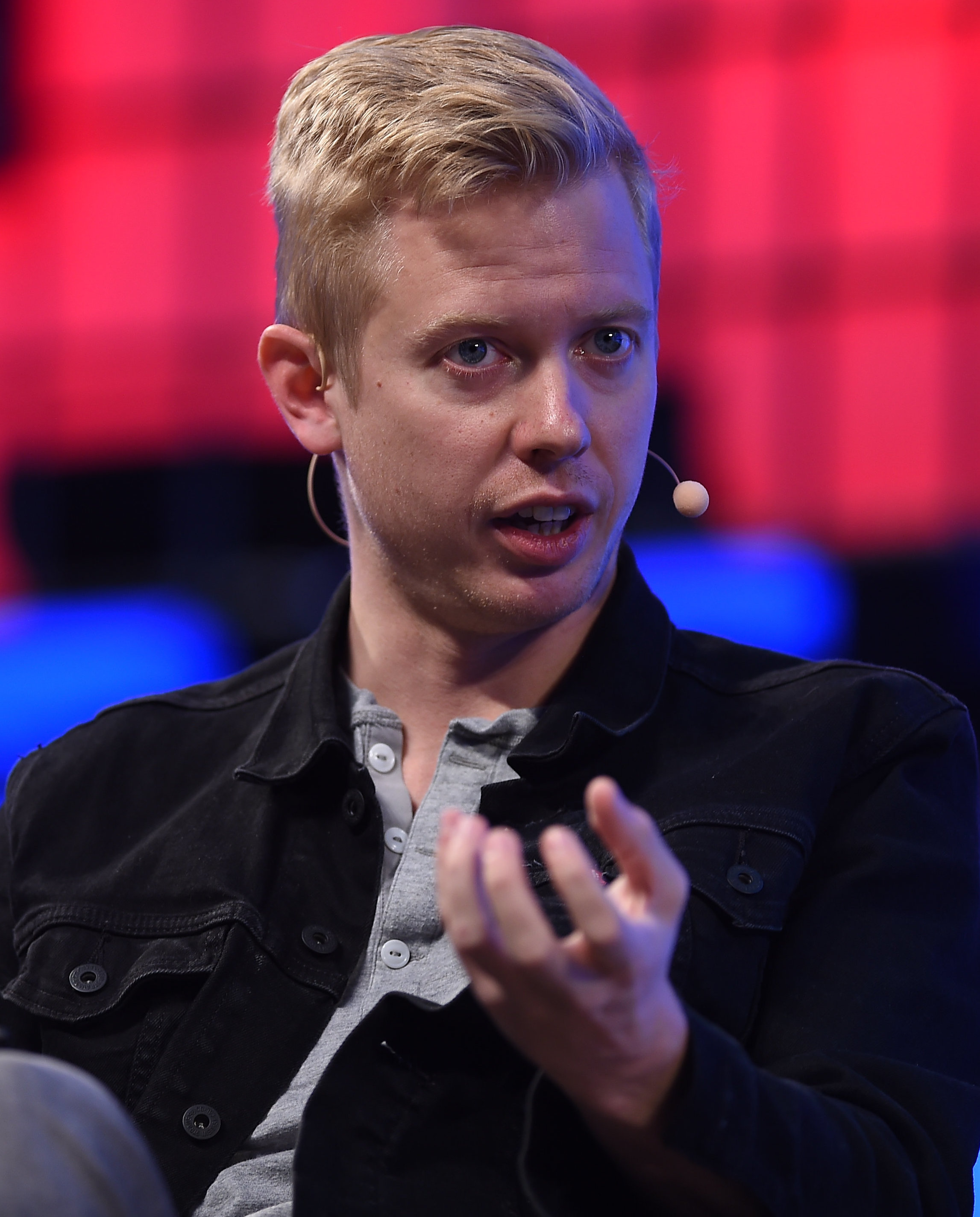 8 November 2017; Steve Huffman, CEO, Reddit, on Centre Stage during day two of Web Summit 2017 at Altice Arena in Lisbon. Photo by Cody Glenn/Web Summit via Sportsfile